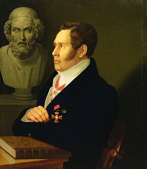 Mikhail Prokopyevich Vishnevitsky - Portrait of Nikolay Gnedich